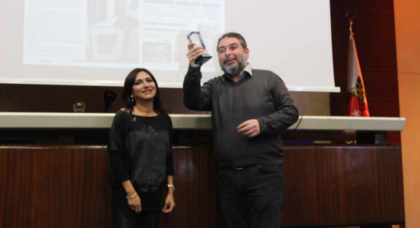 Jüri, 1915 yılında gerçekleşen Ermeni Soykırımı’nın 100’üncü yılında, insan haklarına bağlı yayıncılıktan ödün vermeyen çizgisi, Ermeni halkının ve basınının sesi olmak konusundaki kararlı tutumu nedeniyle Agos gazetesine de özel ödül verildi.Agos gazetesi adına Genel Yayın Yönetmeni Yetvart Danzikyan, ödülü Amberin Zaman’ın ellerinden aldı. Fotoğraf:Ezgi Görgü/Evrensel Gazetesi